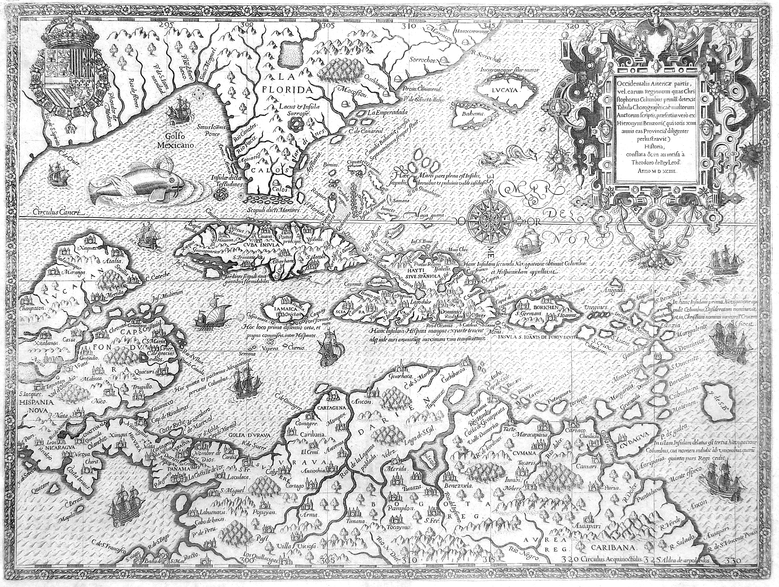 Occidentalis Americae partis - Central America, Caribbean 1594